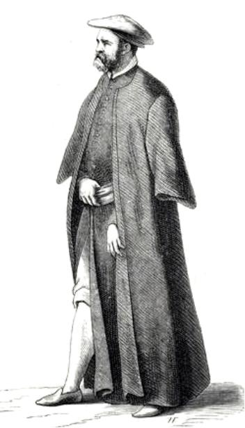 A Greek merchant of the 16th century. Engraving by Cesare Vecellio (1521–1601).